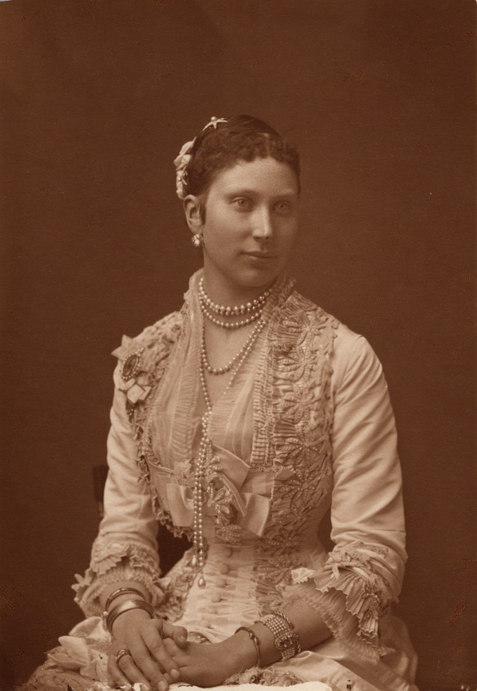 Queen Louise of Denmark